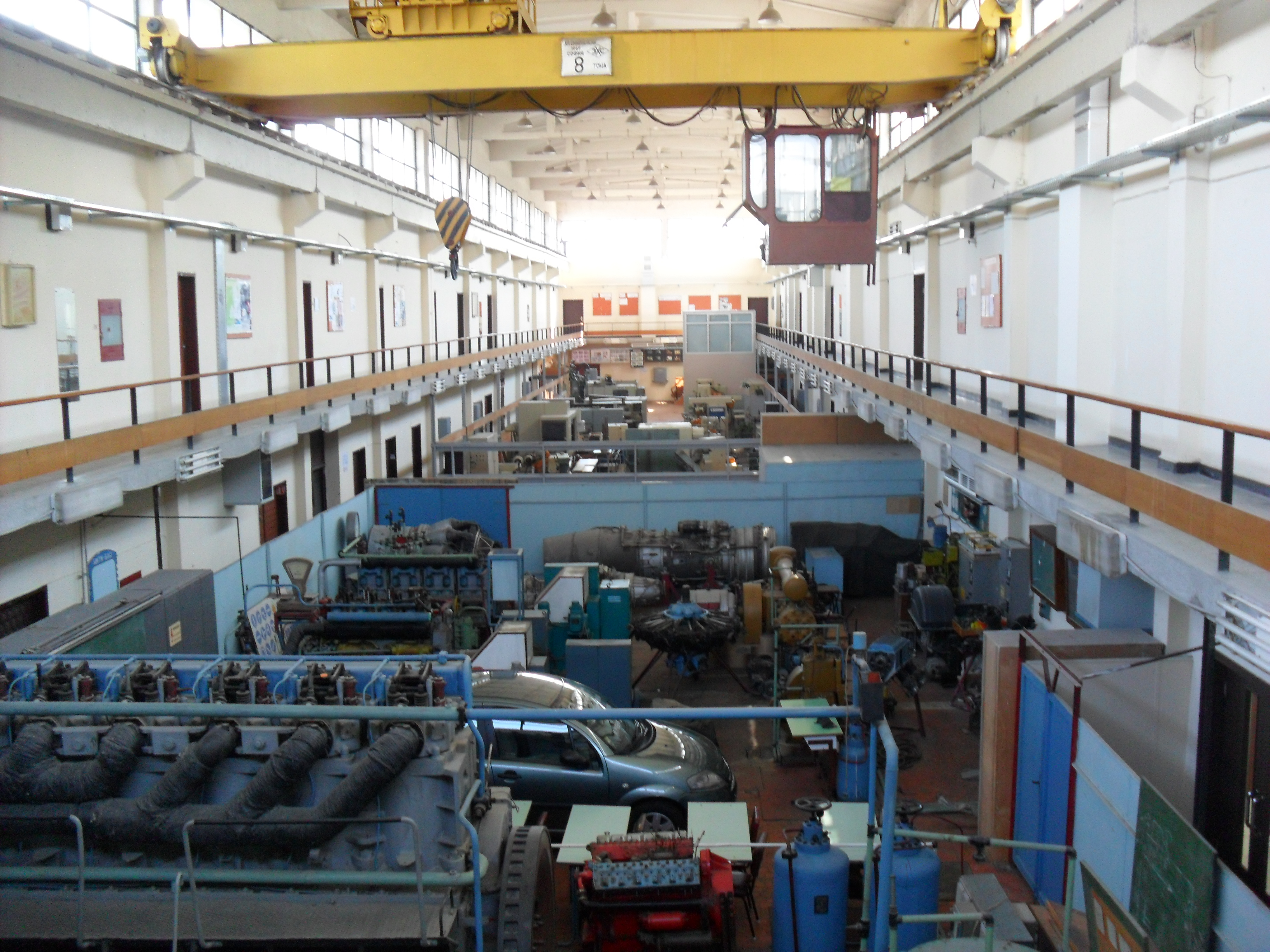 View of the UOV transport and automation lab, facing downwards from a raised platform towards the end of a hall.